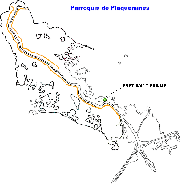 SiSwati: Fort Saint Phillip, Louisiana